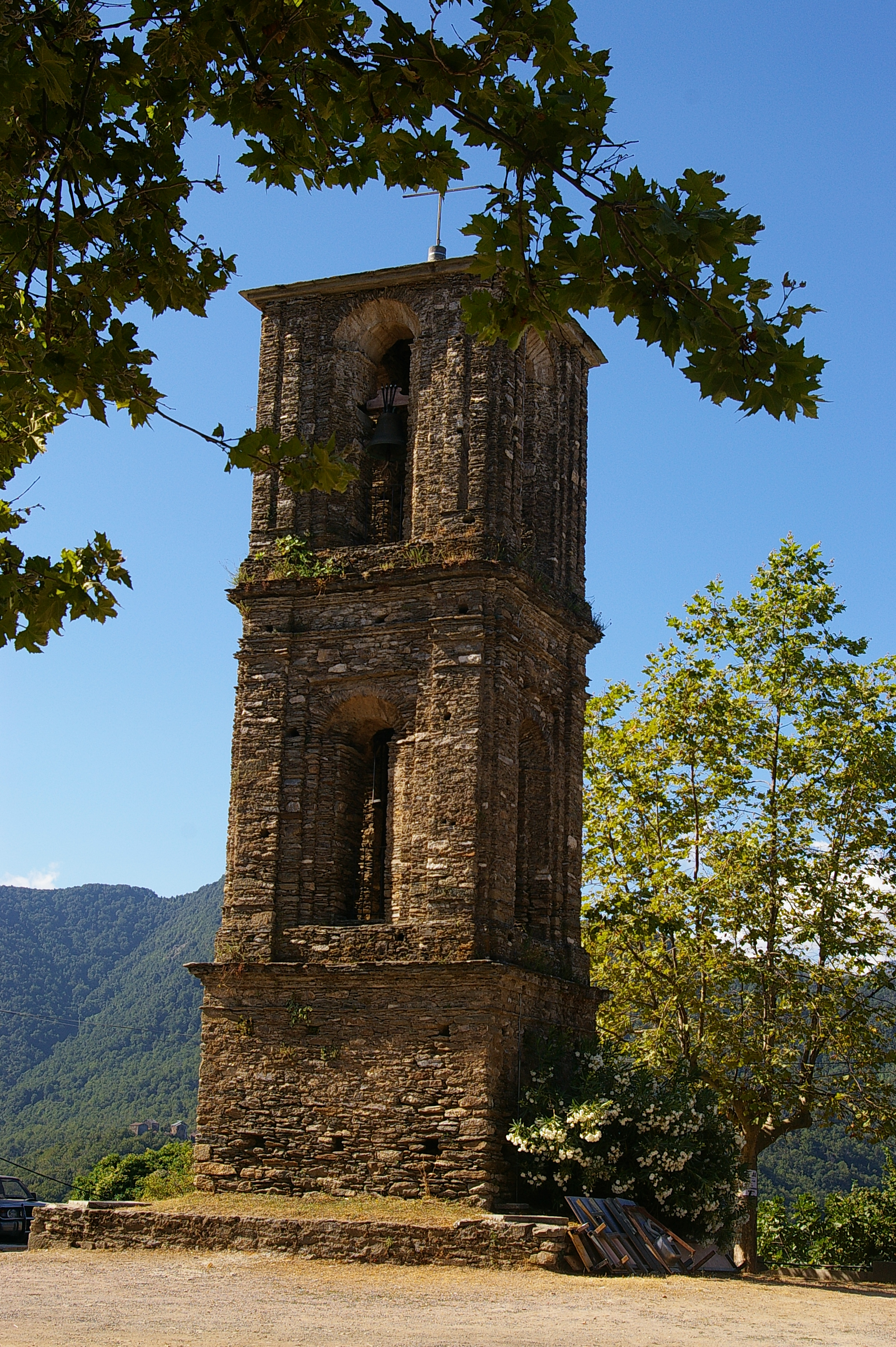 Bell tower of Monacia d'Orezza